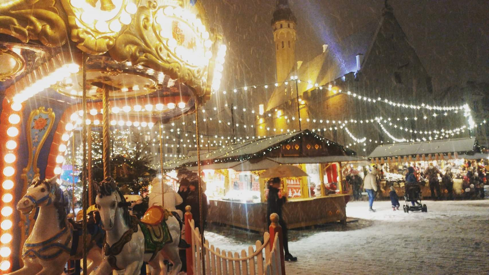 Frame of Tallinn Christmas Market in 2017